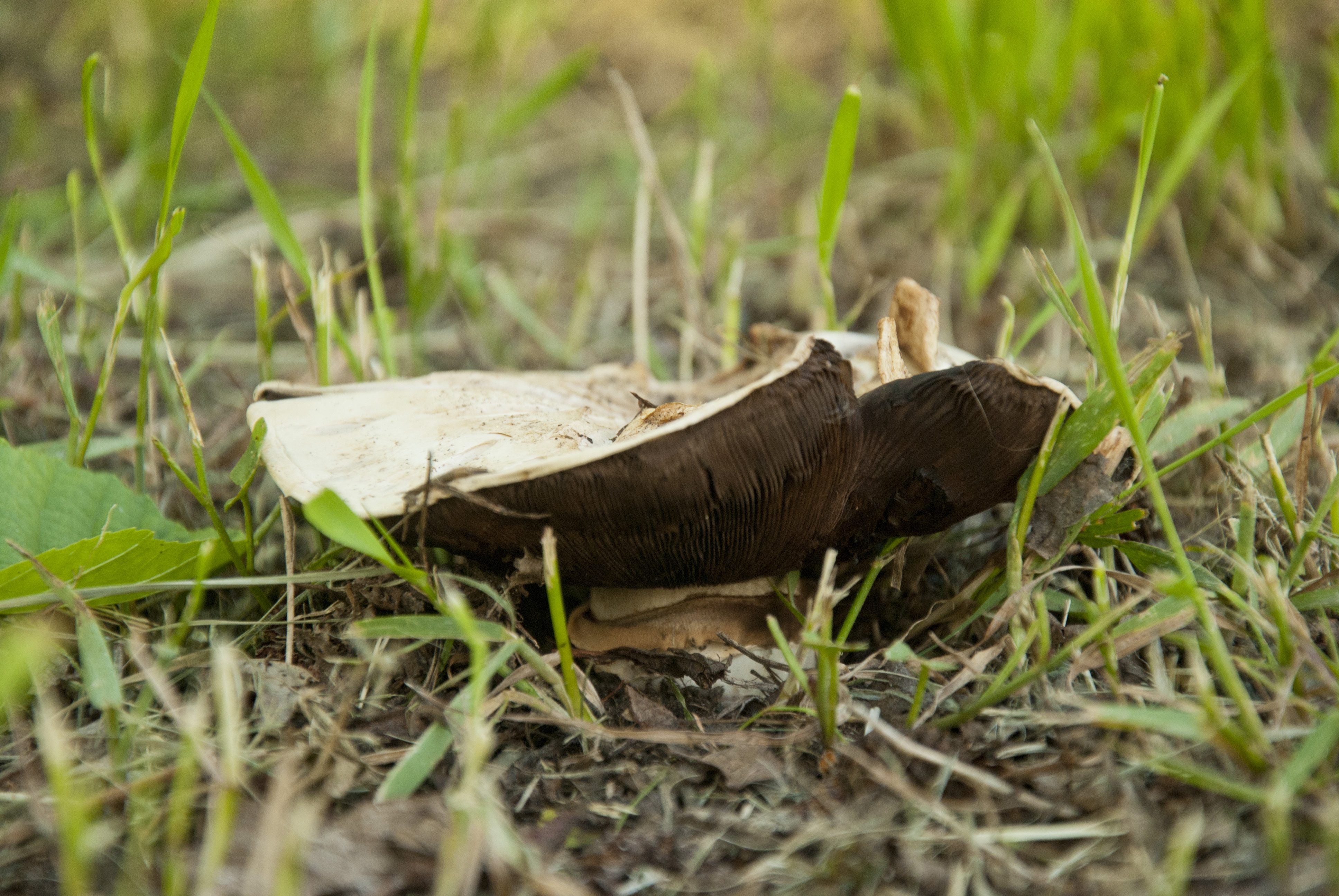 Pavement mushroom - Agaricus bitorquis. Dolní Bousov, Czech Republic.